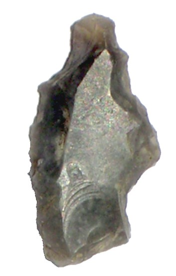 arrowhead-casaccia, Carticasi, Corsica